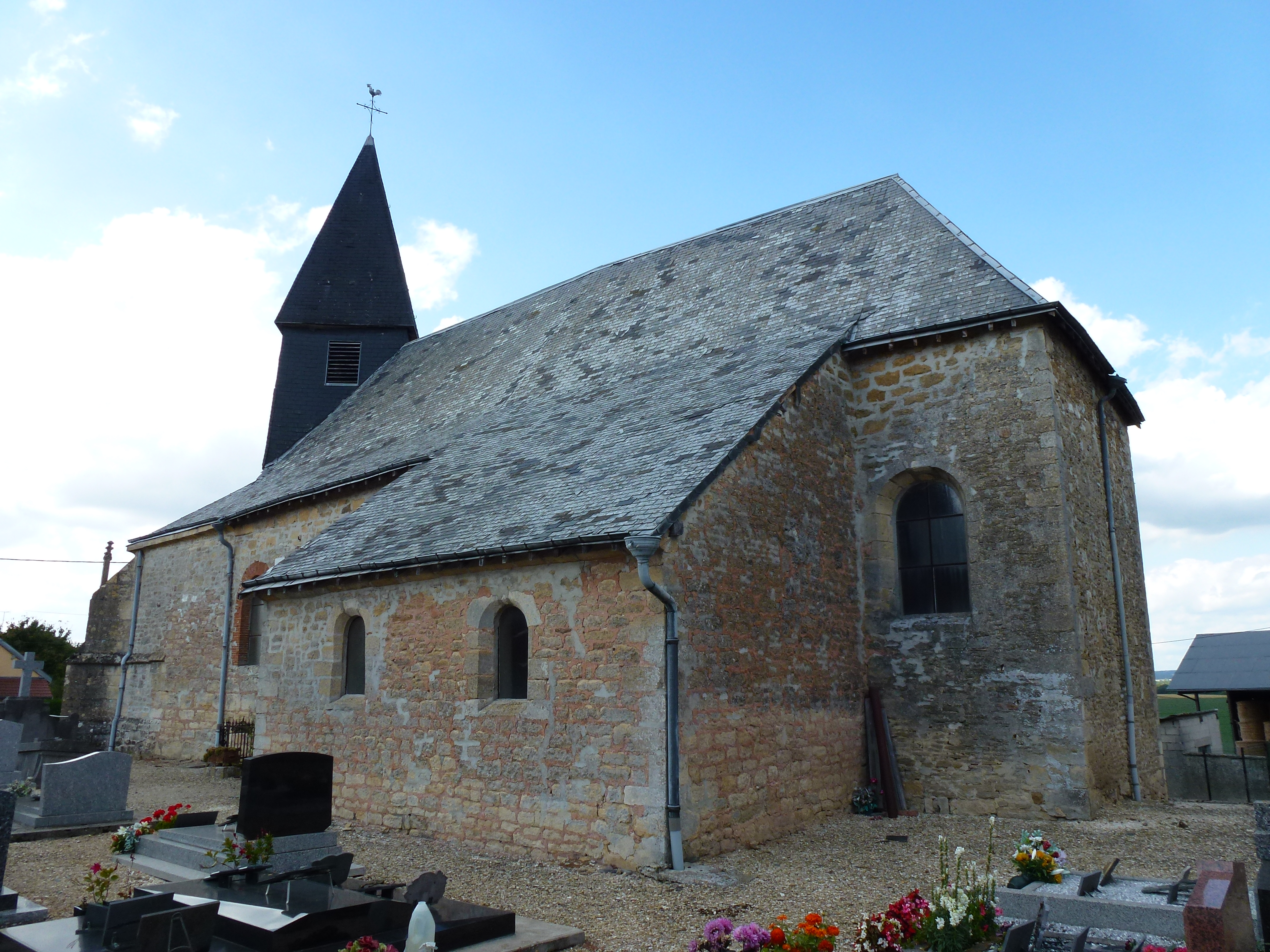 Faux (Ardennes) Église